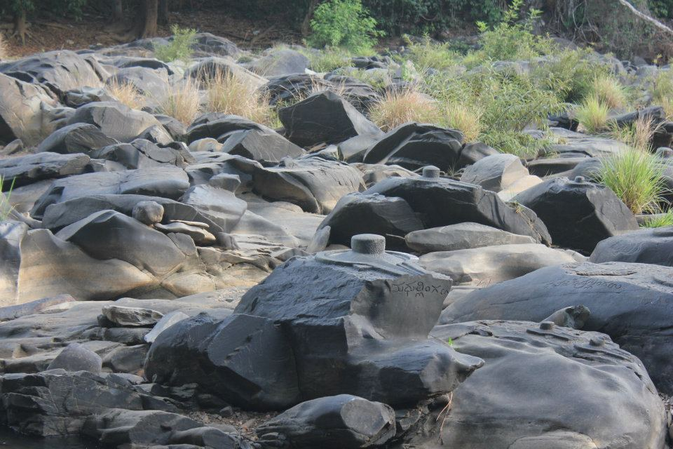 Sahasralinga